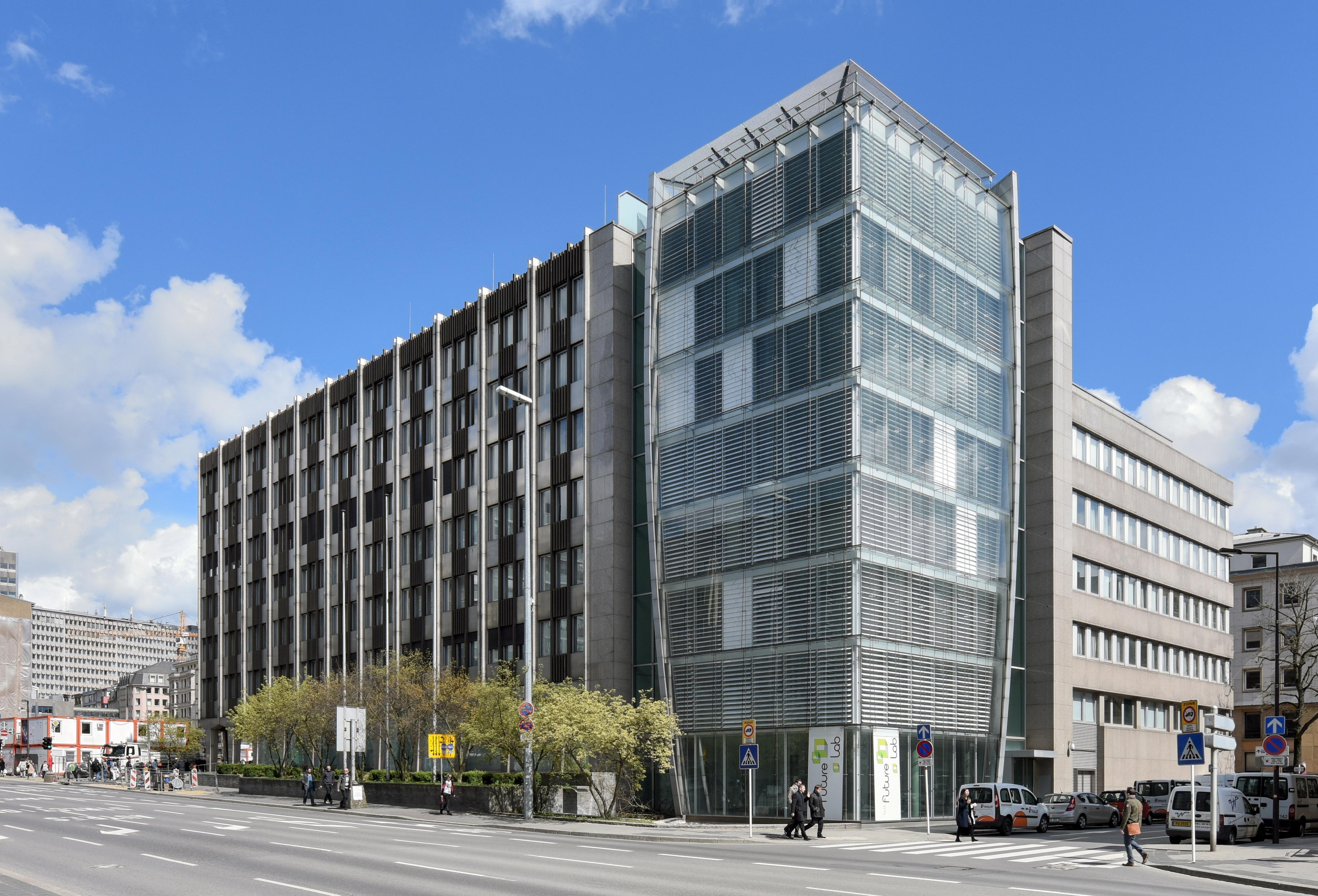 Luxembourg City, boulevard Royal: buildings of BGL BNP Paribas to be demolished.